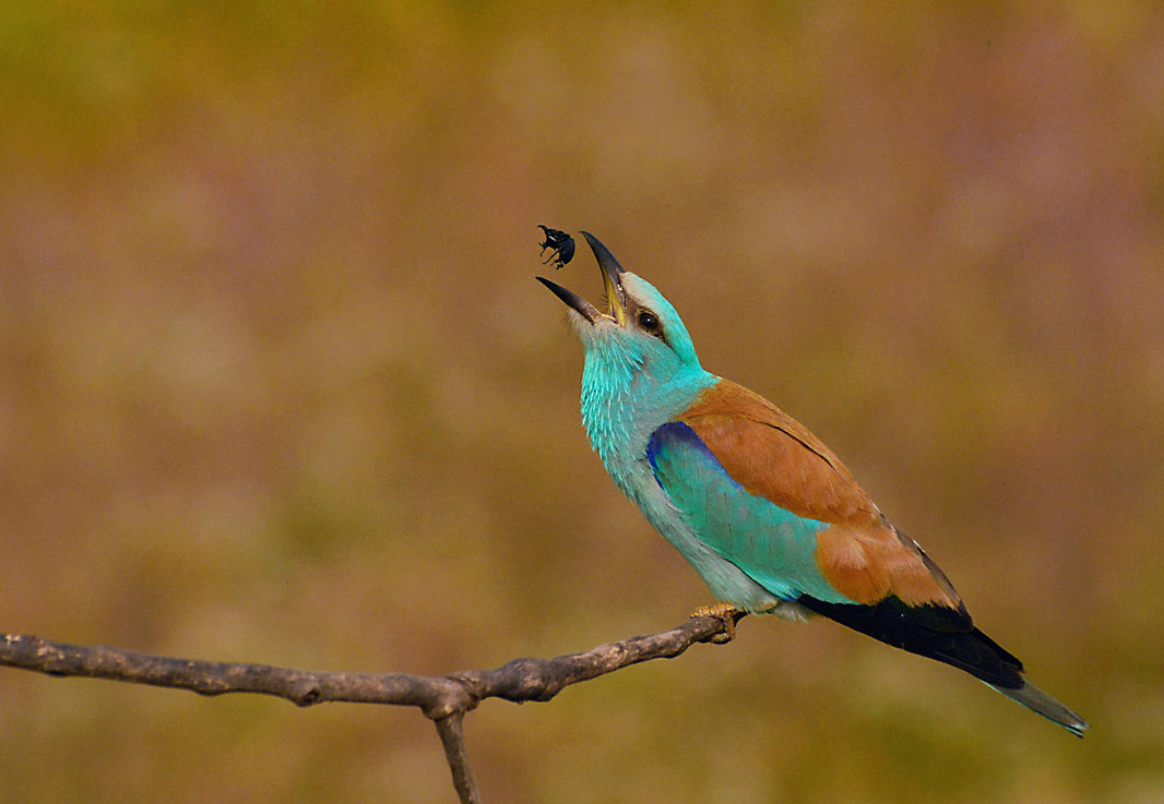 Common European Roller (Coracias garrulus) photographed in Vojvodina, Serbia